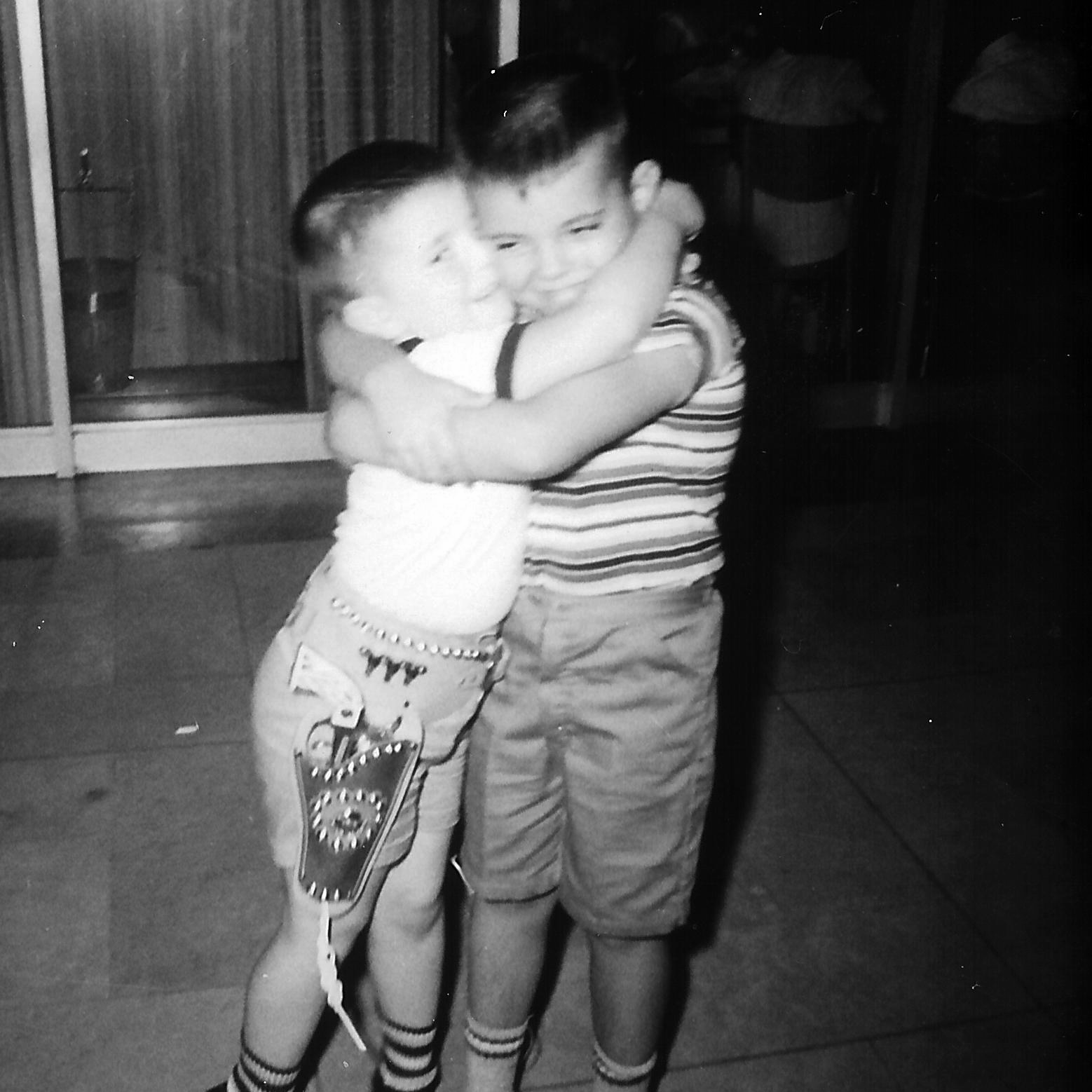 Robert Phillips expresses his love for his big Brother Brad